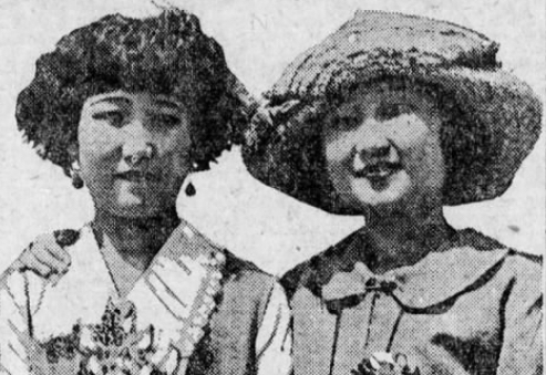 A black-and-white newspaper photograph of two young Asian women, side by side, photographed outdoors. The woman on the left is not smiling or wearing a hat; the woman on the right is smiling and wearing a hat.